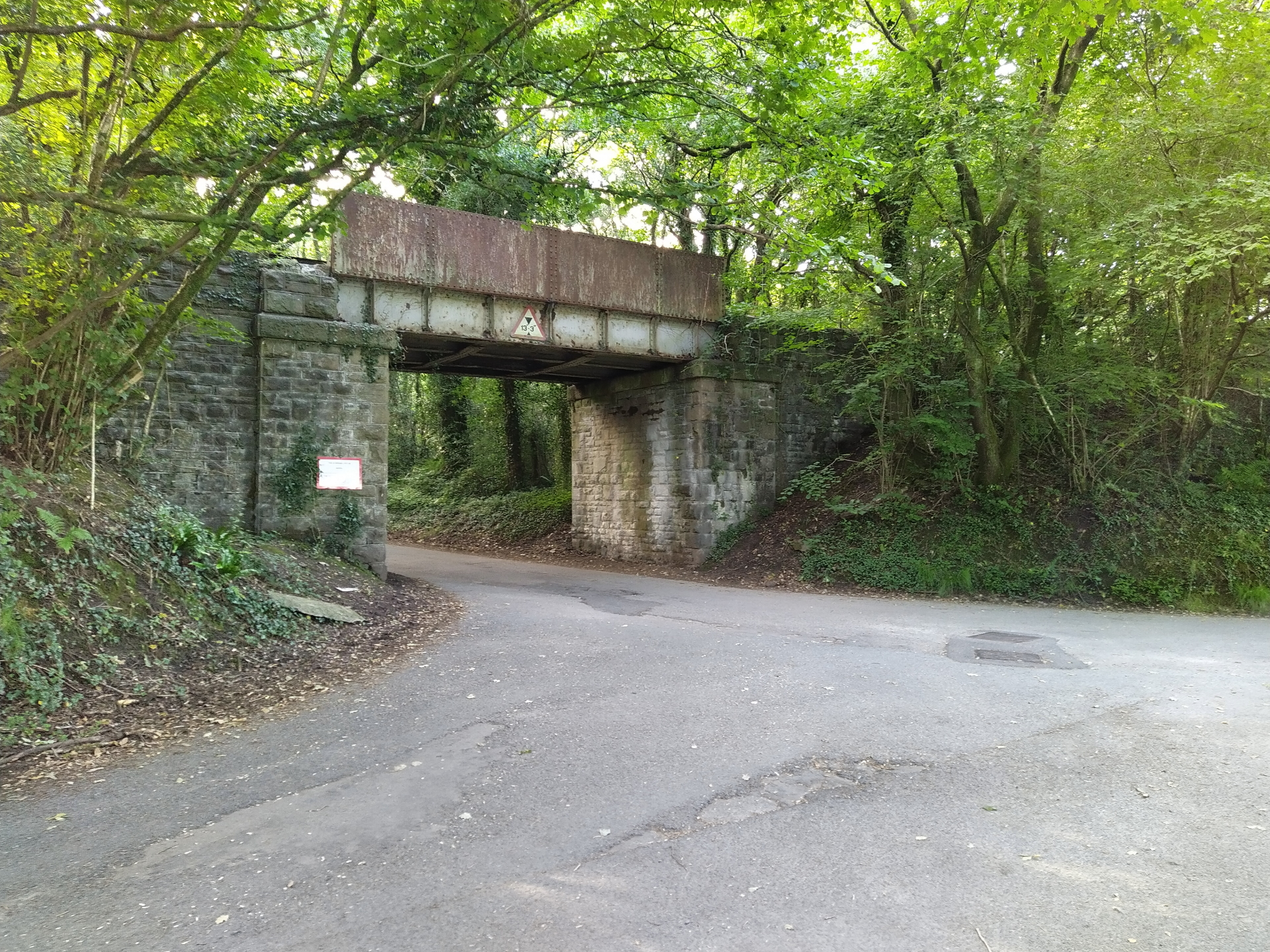 This is the site of Beddau Halt - a railway halt on the Llantrisant and Taff Vale Railway